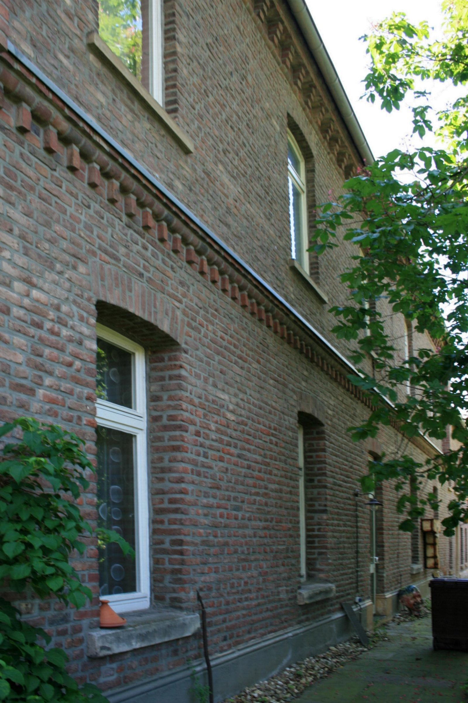 Cultural heritage monument No. H 048 in Mönchengladbach